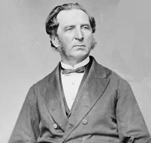 Hon. Charles Fisher, M.P. (York, N.B.) b. Sept. 16, 1808 - d. Dec. 8, 1880